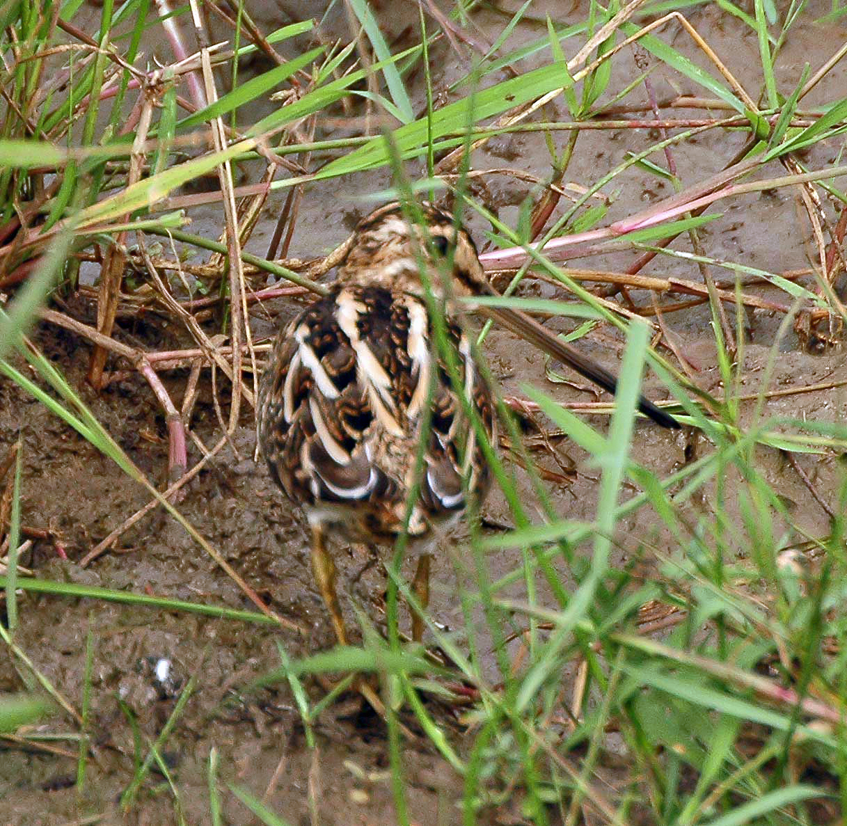 African Snipe (Gallinago nigripennis) Lake Mburo, Uganda